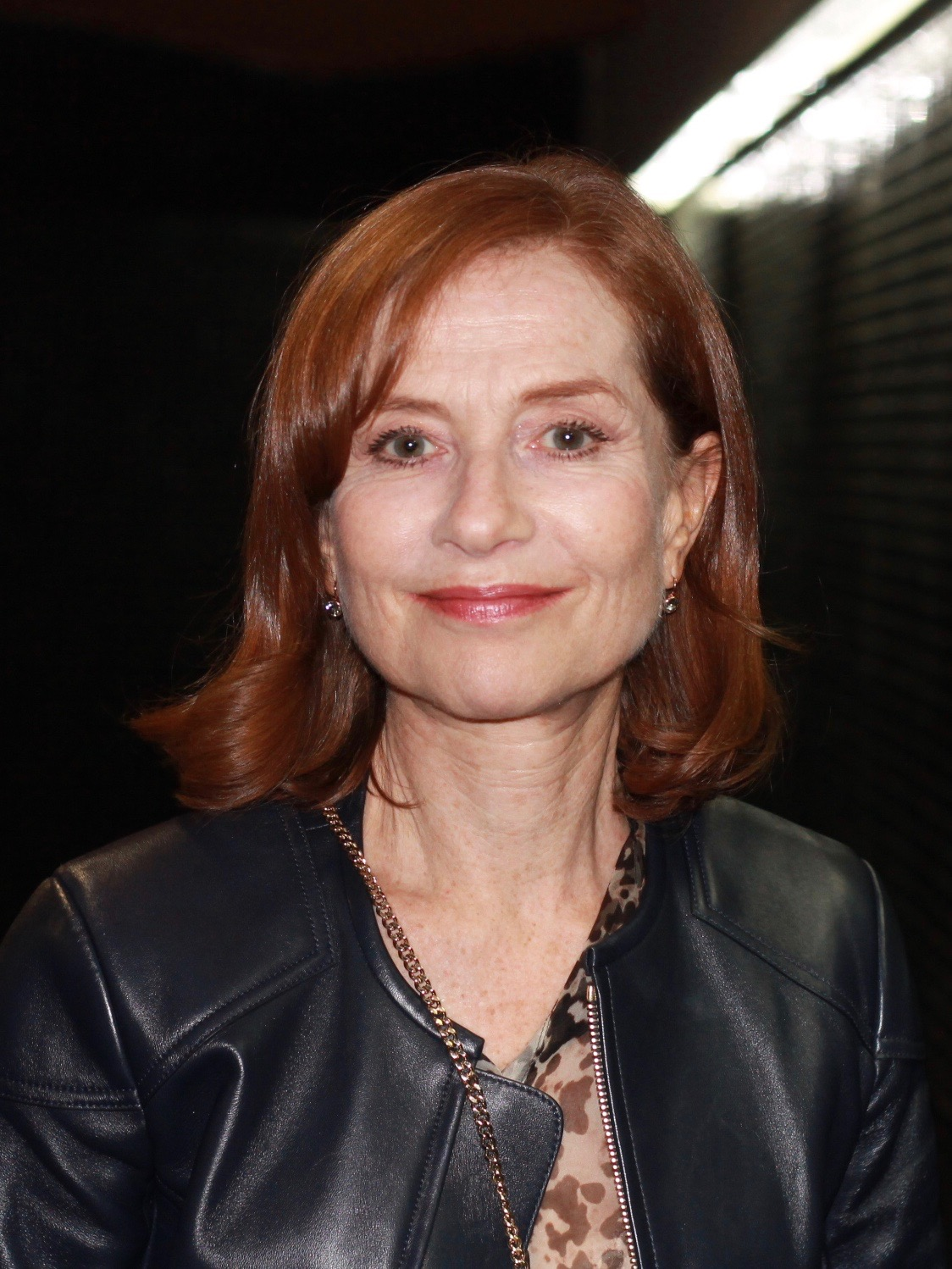 Isabelle Huppert at Lisbon Film Festival 2017